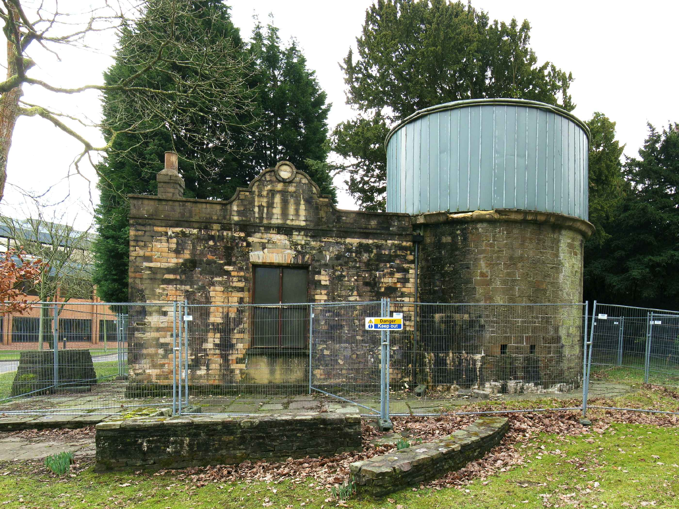 Observatory at former Penllergare Estate The observatory was built in 1851 by John Dillwyn Llewelyn. It was adjacent to the mansion house which has since been demolished and replaced by council offices. John_Dillwyn_Llewelyn